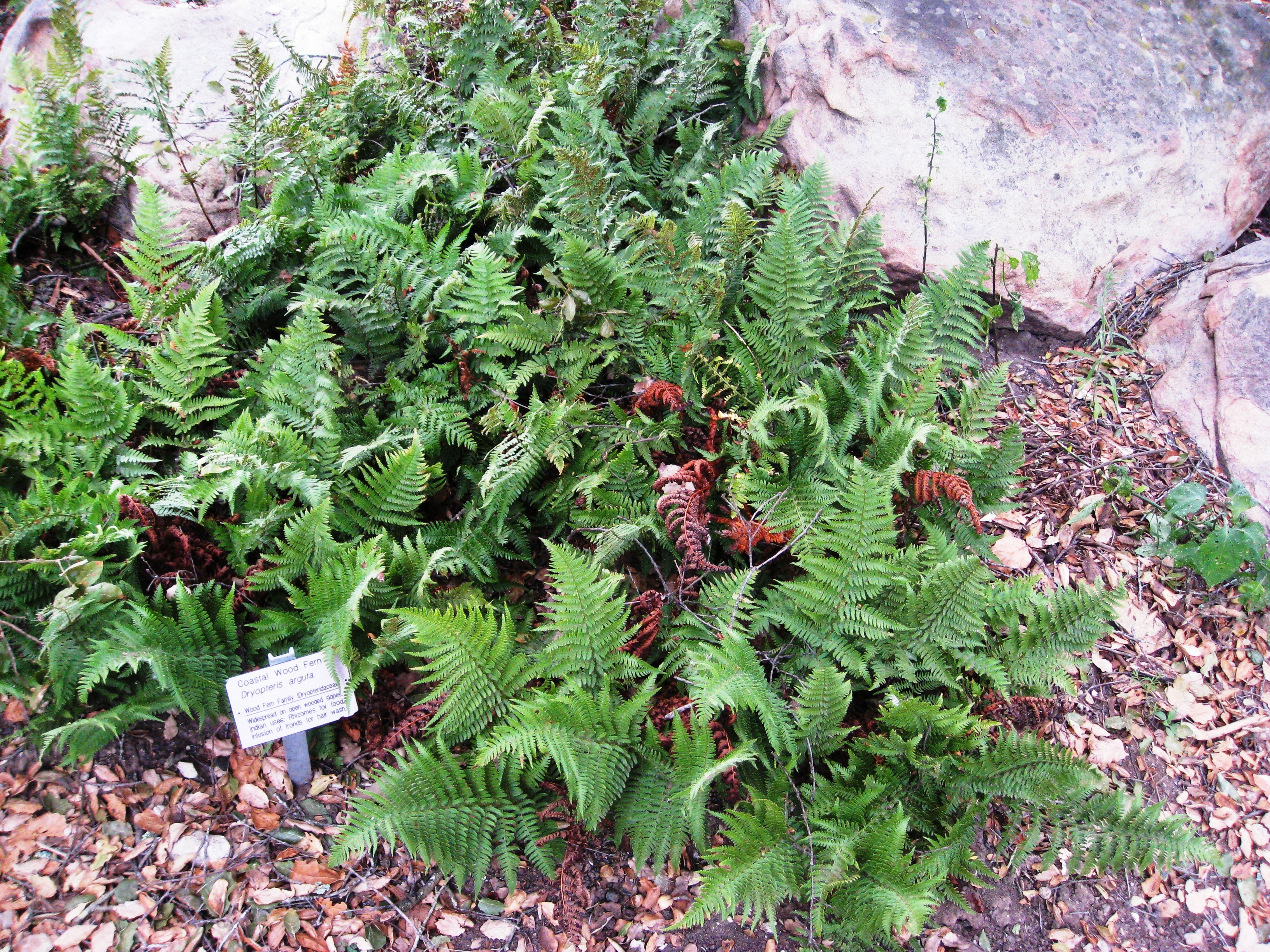 Dryopteris arguta coastal woodfern, is a species of wood fern. It is native to the west coast of North America, where it grows in oak woodlands and shady low elevation slopes Seen at the Santa Barbara Botanic Garden. sb0811 081